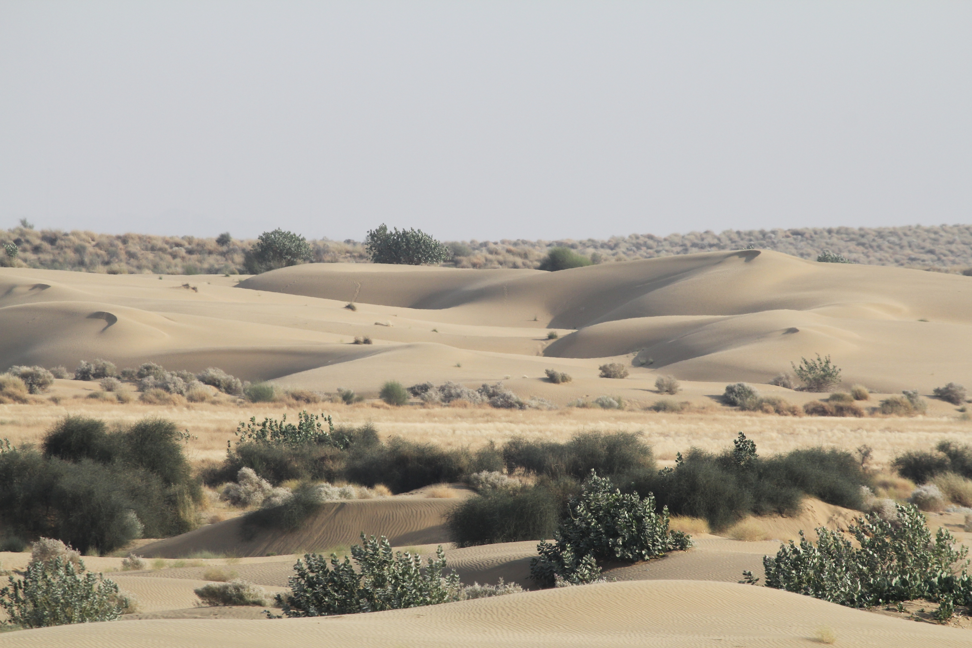 Sams Sand dune is one of the most widely visited sand dune in Rajasthan